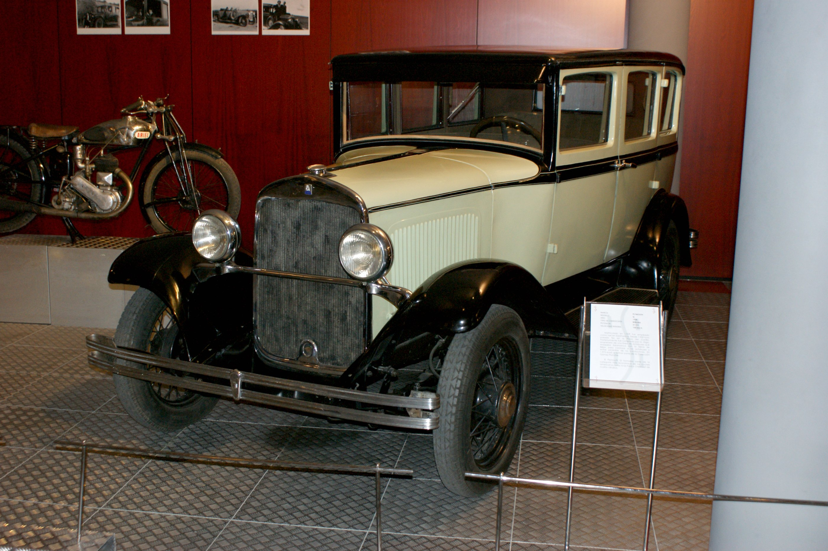 1928 Plymouth Q Berlina 2.0 litre at the Salamanca Motor Museum, 04/08.